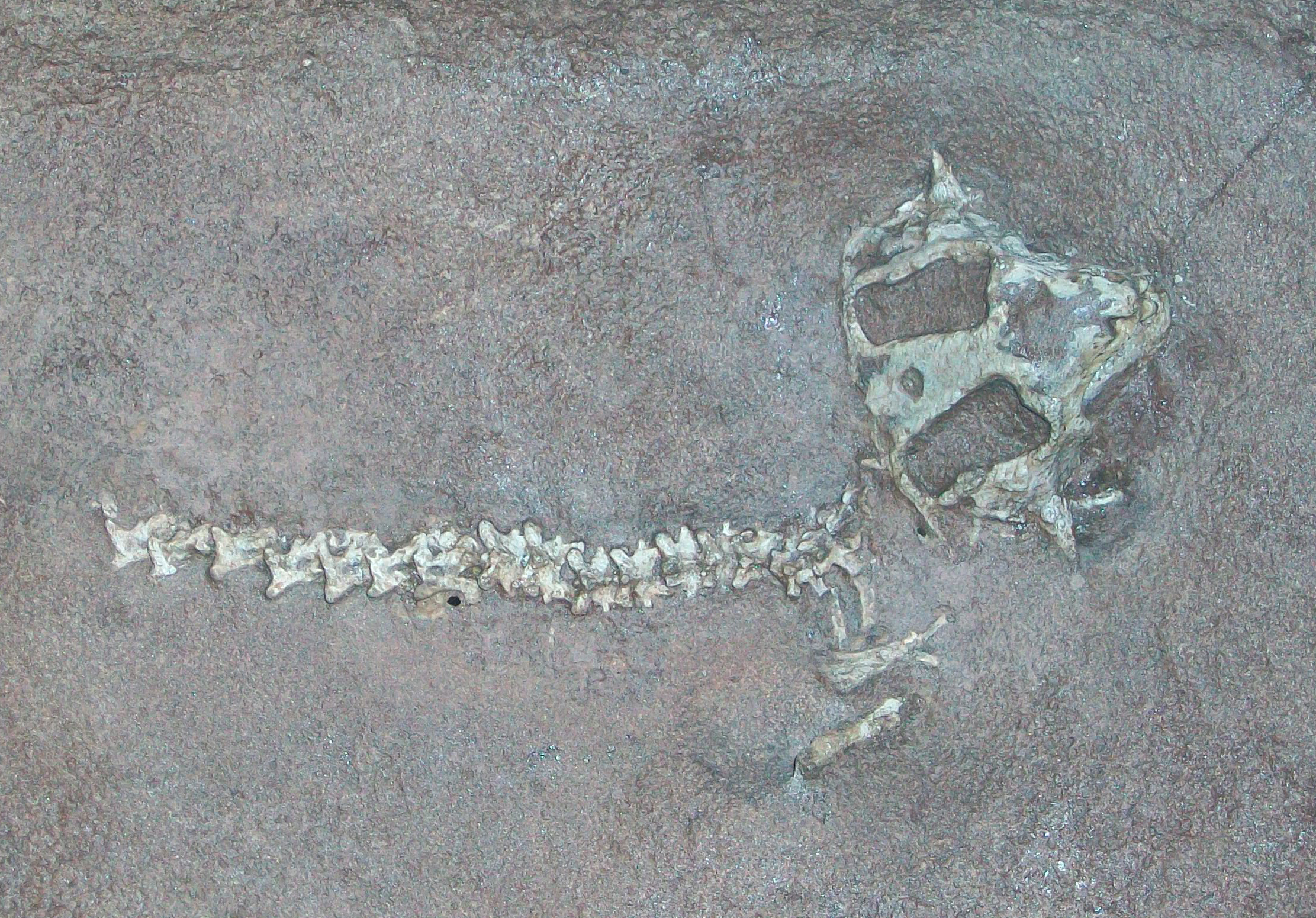 Partial skeleton (skull, vertebral column of neck and trunk, and parts of the pectoral girdle) of the extinct procolophonid reptile Hypsognathus fenneri (specimen AMNH 1676) from the upper Upper Triassic (Norian/Rhaetian) of Passaic, New Jersey, in dorsal view, on display in the American Museum of Natural History. The specimen was discovered in 1939 by a quarry worker.[1]